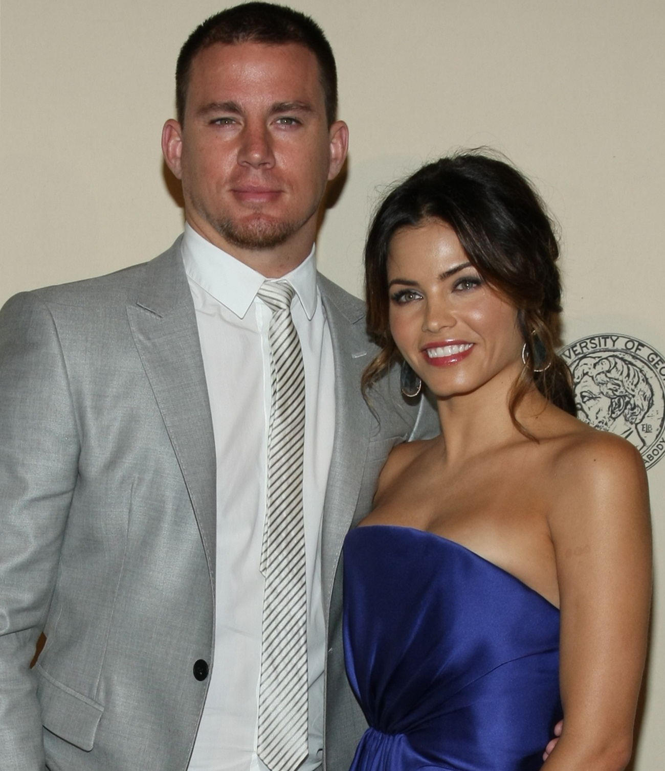 Channing Tatum & Jenna Dewan at the 71st Annual Peabody Awards Luncheon 2012.